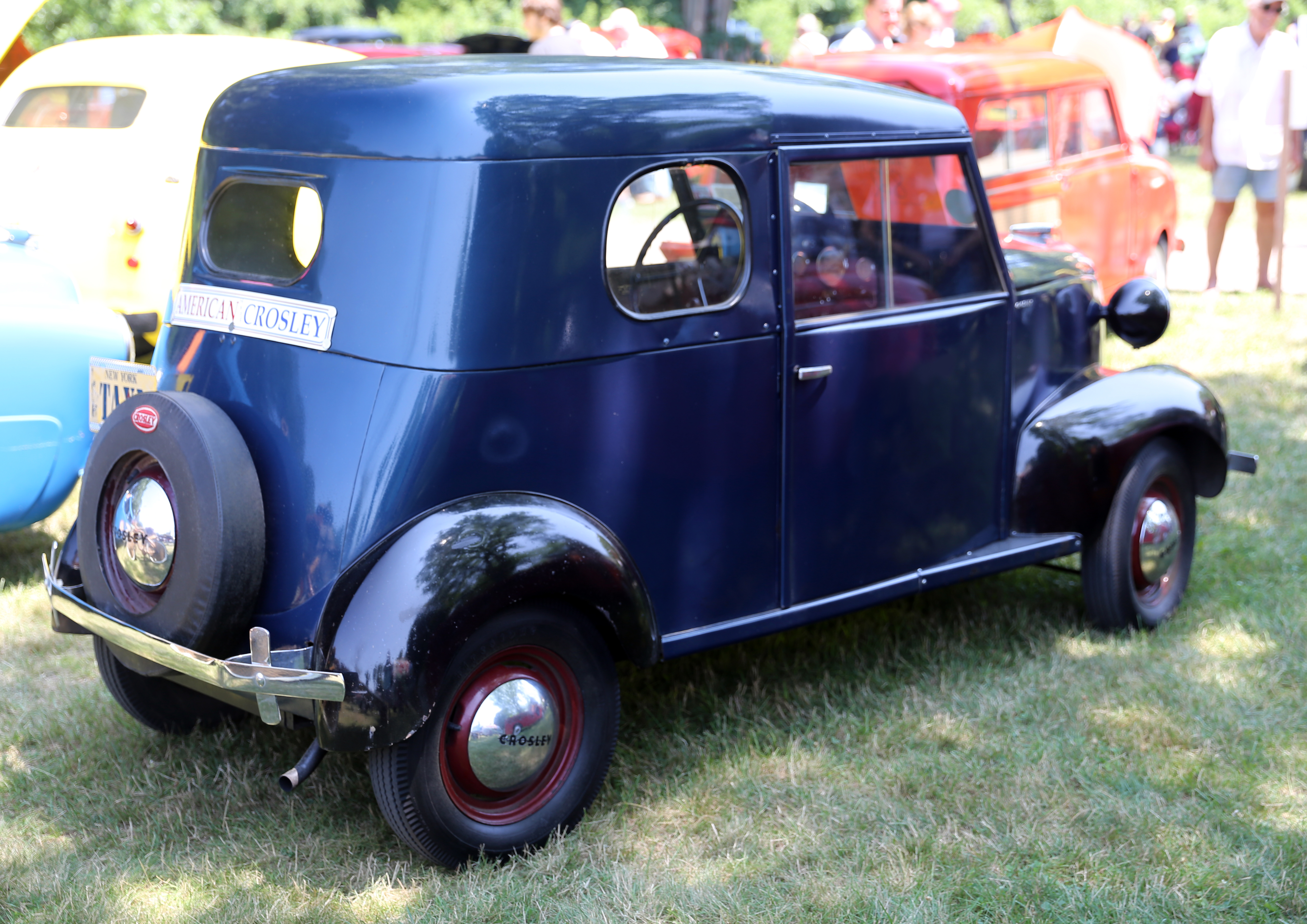 A 1942 Crosley CB-42 Liberty Sedan, first year for Crosleys with a metal roof.